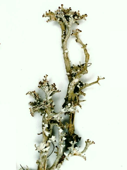 Cladonia furcata (Hudson) Schrader, 1794 Photograph of a herbarium specimen. Note the squamules on the podetium. Cladonia furcata was growing on soil on Lead Mine Mountain near the Washington-Hancock County Line, Maine, USA (Lat. 44o51.470' N, Long. 68o05.914' W). Collected by E.C. Uebel, and identified by Dr. David H.S. Richardson (No. U-216, 13 Jun 2001).